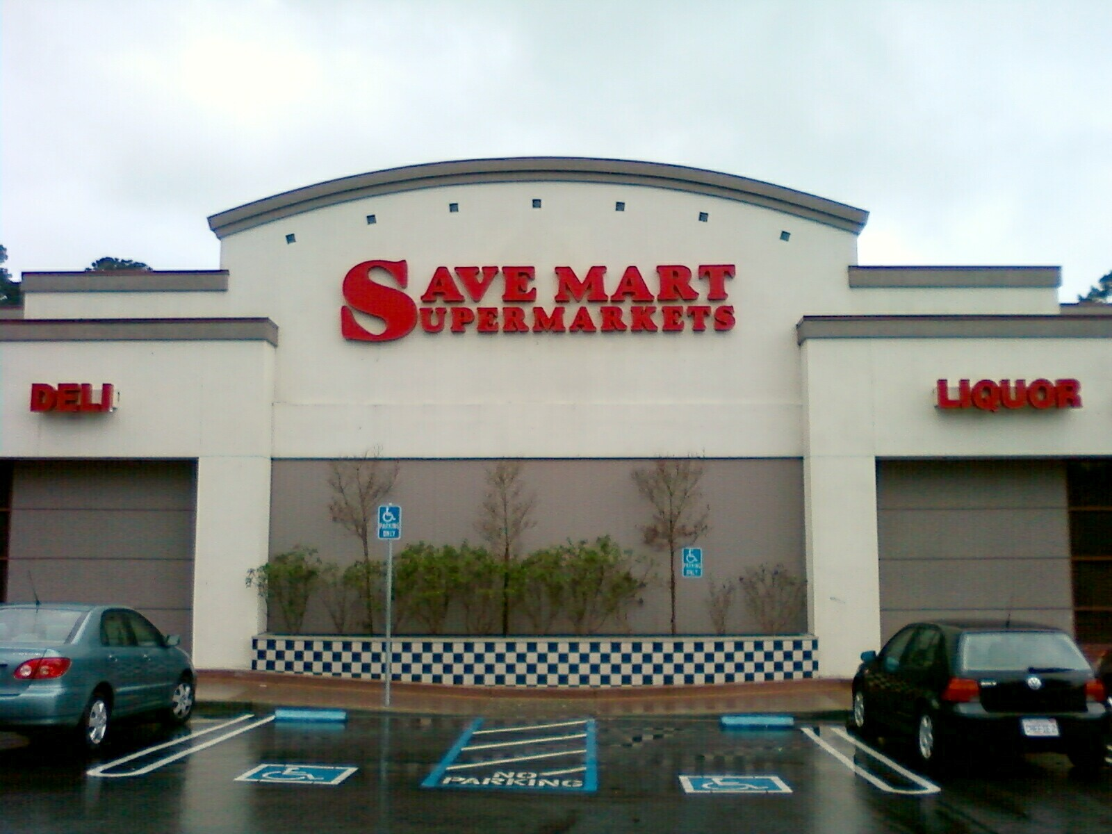 Front entrance of a Save Mart supermarket at 200 Country Club Gate Center, Pacific Grove, California. View from the Country Club Gate Center Shopping Center parking lot, looking southeast. This photograph was taken with a Samsung Reclaim SPH-m560 mobile phone camera and edited (bright, contrast and color balance) using ArcSoft PhotoStudio 5.5